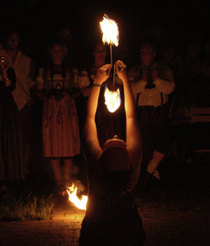 Firepoi - Buzzsaw - Frontal